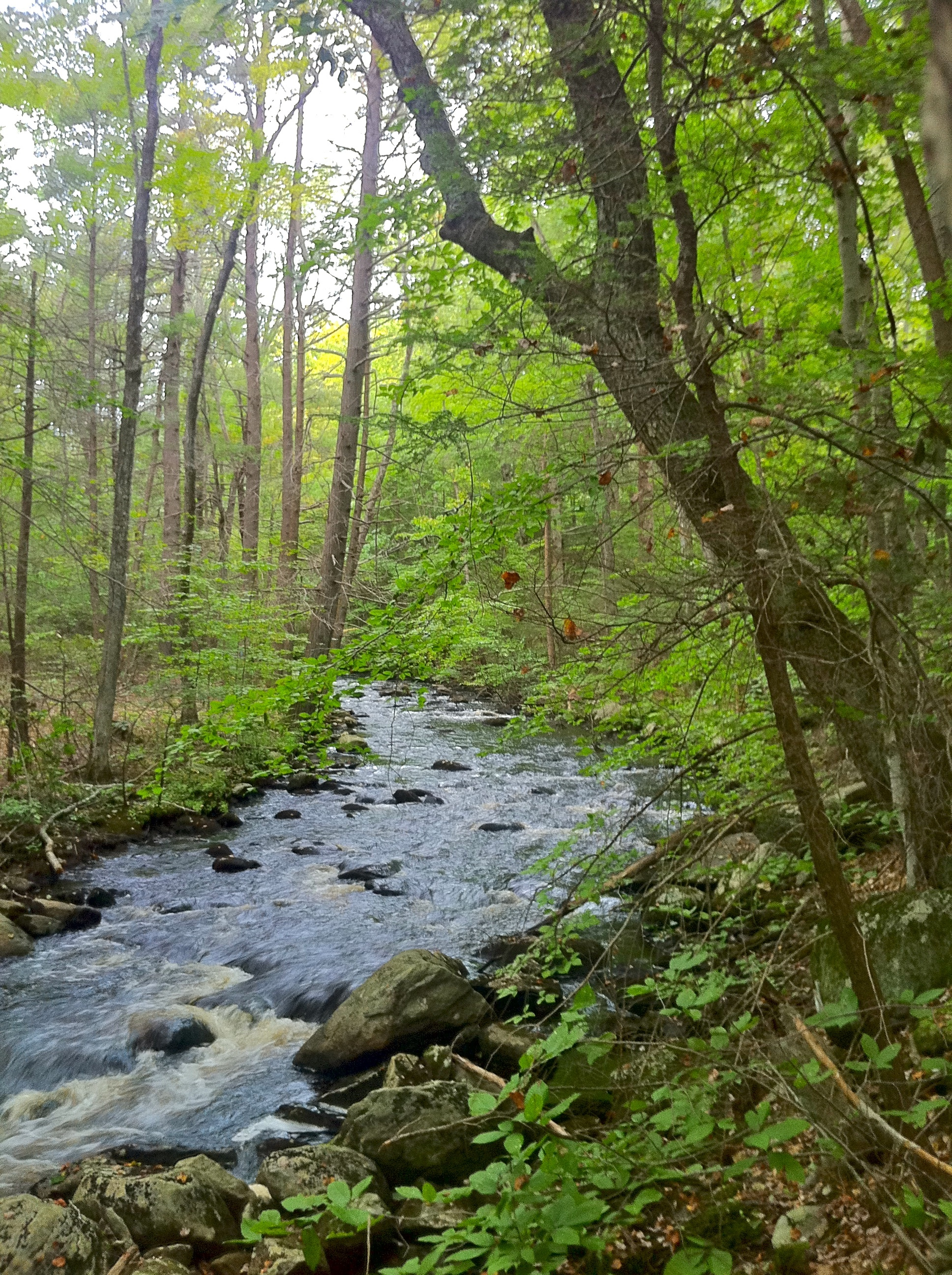 Hammonassett River Trail - Madison